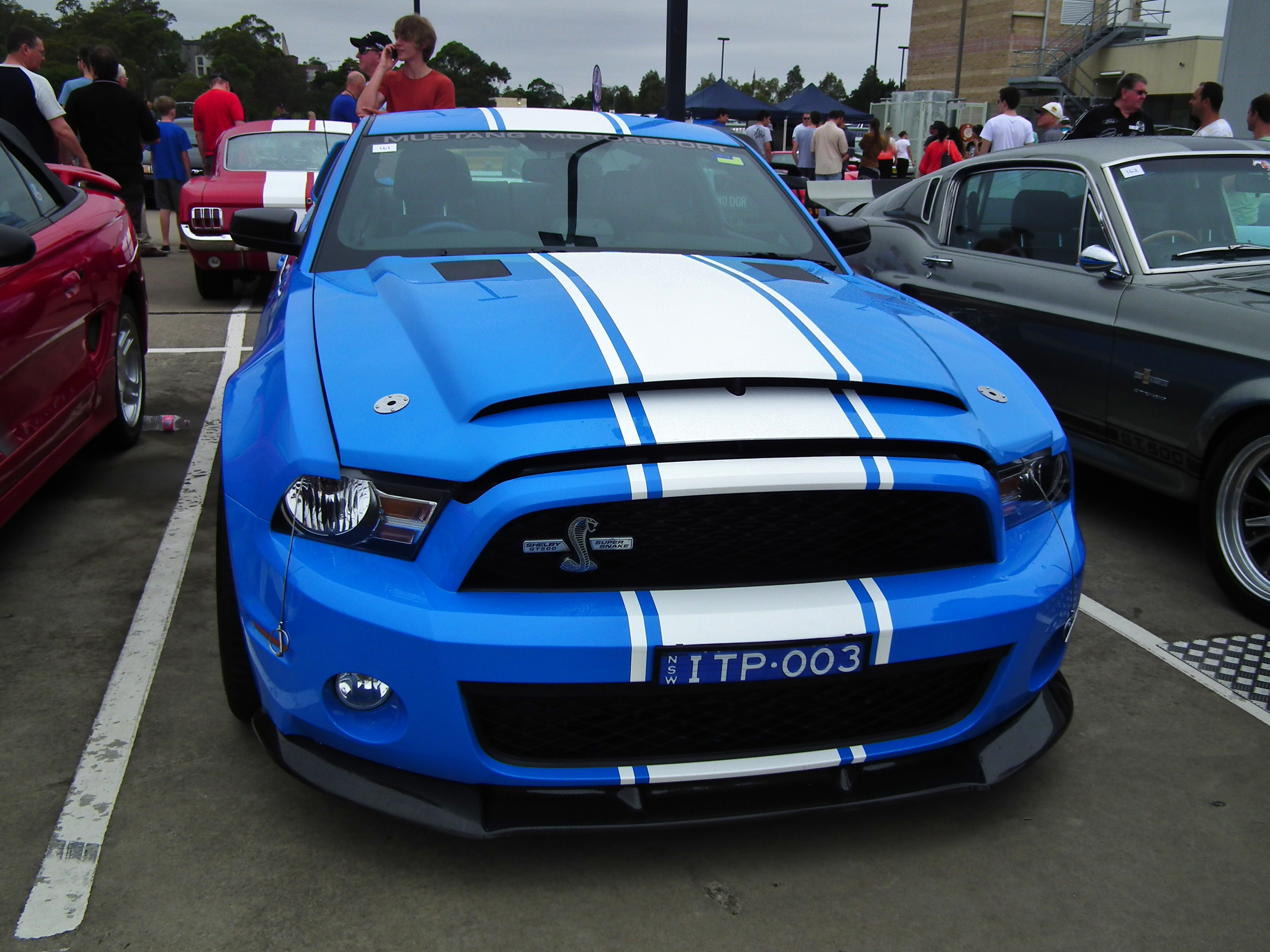 2012 Ford Mustang Shelby GT 500 Super Snake coupe. Taken at the 2013 New South Wales All American Day, held at Castle Towers Shopping Centre, Castle Hill, Sydney.